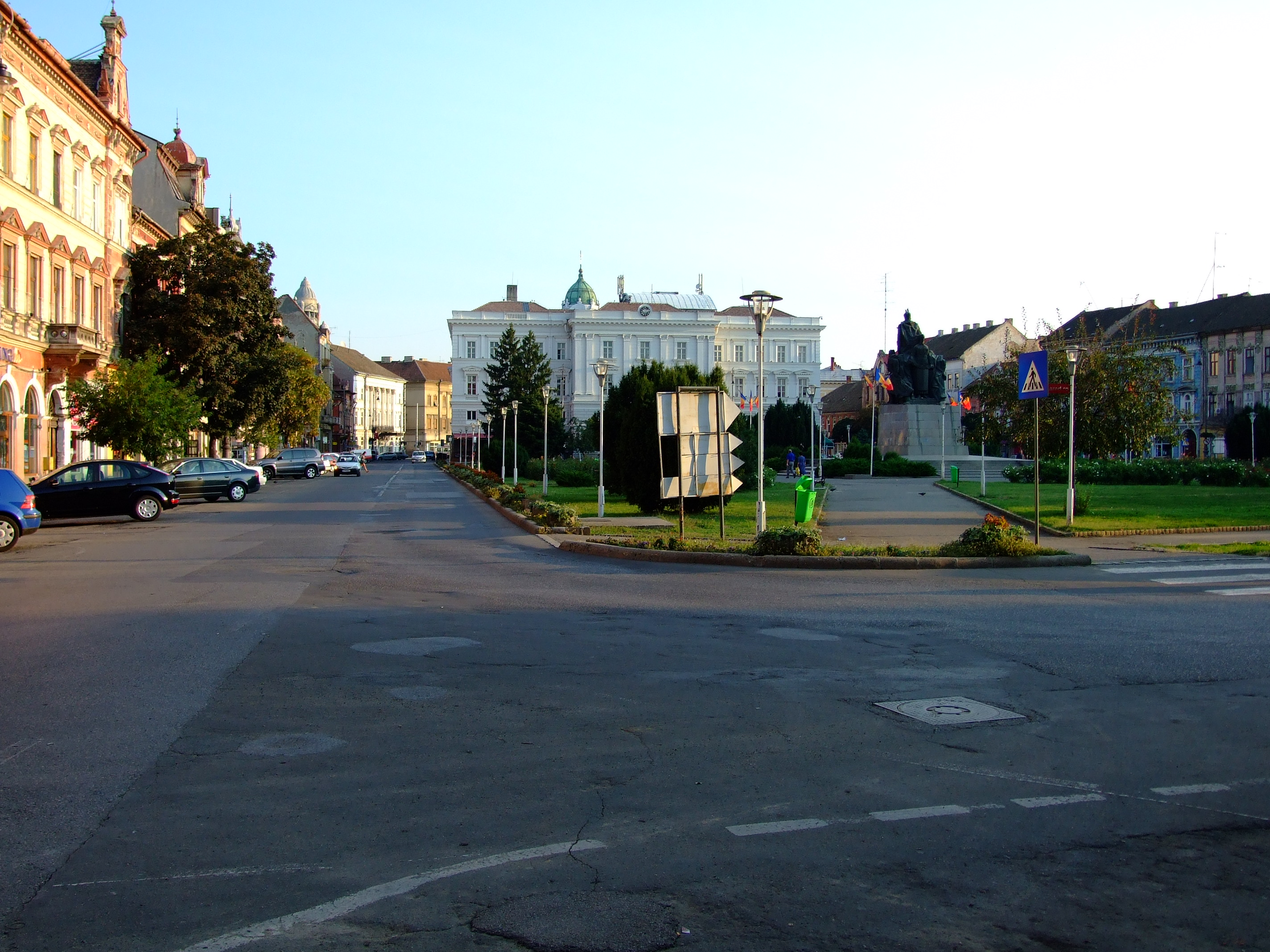 Arad, county capital in southwestern Romania, Banat regionhelp